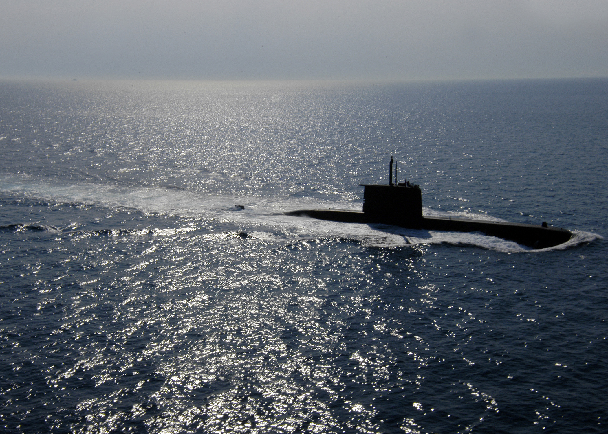 Gulf of Taranto, Italy (June 24, 2005) - The Turkish submarine Preveze surfaces following the North Atlantic Treaty Organization (NATO) submarine escape and rescue exercise Sorbet Royal 2005. Divers from various nations will work together to rescue submariners during the exercise in the Mediterranean. Twenty-seven participating nations, including 14 NATO nations will test their capabilities and interoperability. Four submarines with up to 52 crewmembers aboard will be placed on the bottom of the ocean, while rescue forces with rescue vehicles and systems work together to solve complex disaster rescue problems. U.S. Navy photo by Chief Journalist Dave Fliesen (RELEASED)